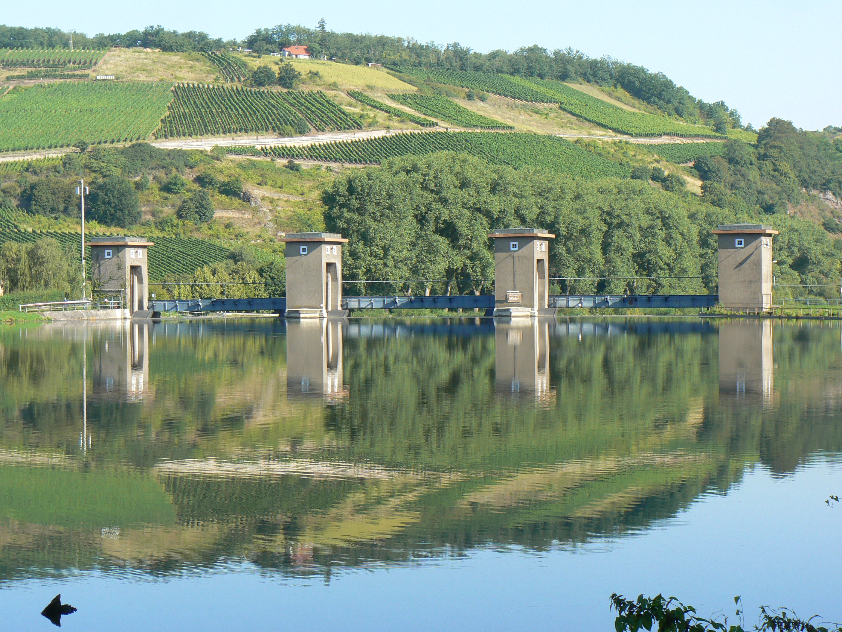 The Nahe reservoir at Niederhausen (Rhineland-Palatinate/Germany)